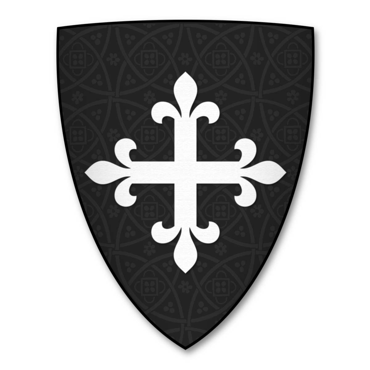 Coat of arms of Richard Siward, as blazoned in the Caerlaverock Poem (K-053: "Richart Suwart") "Noire baniere ot aprestee O crois blanche o bouz flouretee." Arms: Sable, a cross flory argent.